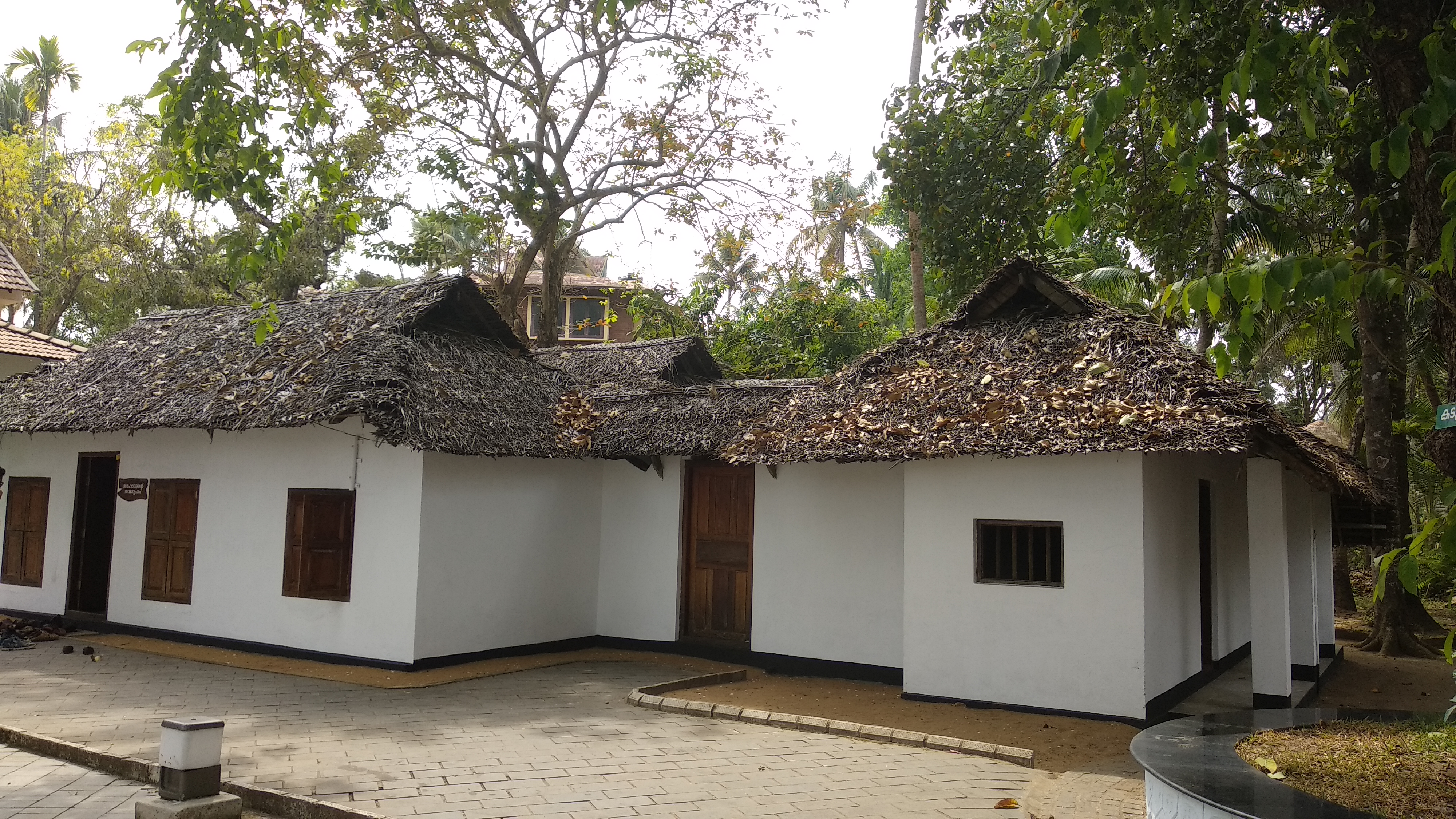 Sahodaran Ayyappan smarakam